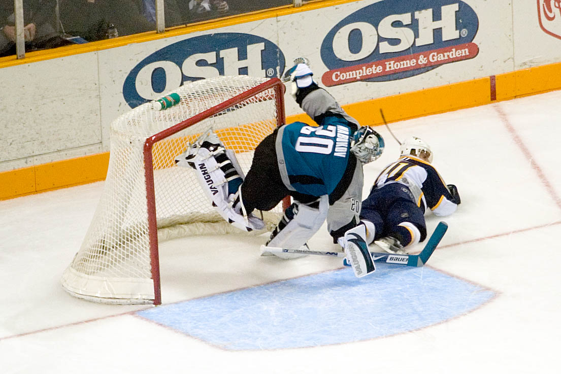 Nashville Predators at San Jose Sharks 2/28/2007